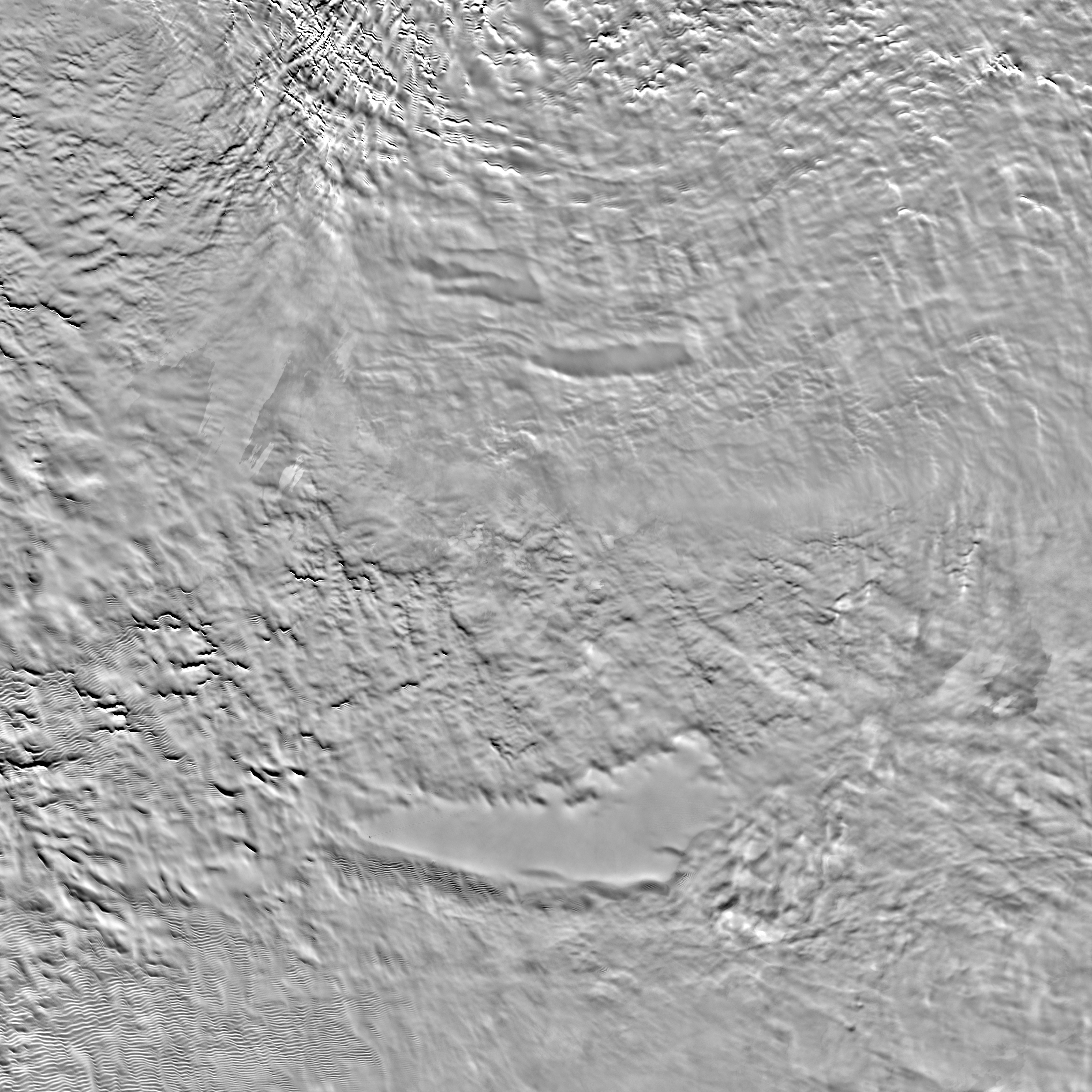 Across the rippling, crevassed whitescape of the East Antarctic Ice Sheet, two unusual shapes appear in this grayscale satellite image of the frozen continent. The smooth, dark gray oval shapes are slight depressions in the surface of the ice sheet that trace out the shorelines of two lakes that are buried several thousand meters (more than 2 miles) deep in ice. Scientists recently published the first thorough description of the size, depth, and origin of these two large lakes, called 90° East Lake (for its longitude) and Sovetskaya Lake (for the Russian research station that was unknowingly built over top it many years ago). The two lakes are close to Lake Vostok, thought to be the largest of Antarctica’s 70 or more subglacial lakes. The water in the lakes is kept from freezing by warmth from the surface of the Earth and the insulation provided by the thick covering of ice. Scientists believe Vostok and the new lakes may contain unique ecosystems isolated from the outside world for tens of millions of years. The survival of life in these buried lakes could provide corroboration for the idea that life could exist in an ice-covered ocean that some scientists believe exists on Jupiter’s moon Europa. The image above is part of the satellite image collection called the “MODIS Mosaic of Antarctica,” a map of the continent’s surface made from 260 images acquired by the Moderate Resolution Imaging Spectroradiometer (MODIS) sensors on NASA’s Terra and Aqua satellites between November 20, 2003, and February 29, 2004. Reference: Bell, R. E., M. Studinger, M. A. Fahnestock, and C. A. Shuman. (2006). Tectonically controlled subglacial lakes on the flanks of the Gamburtsev Subglacial Mountains, East Antarctica. Geophysical Research Letters, 33, L02504